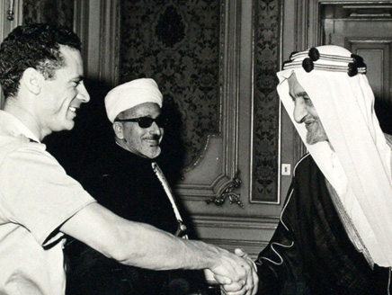 King Faisal with Qathafi 1970s